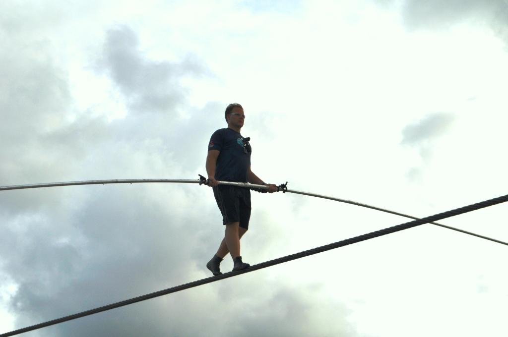 Nik Wallenda Trains for June 23, 2013 Grand Canyon Walk at Nathan Benderson Park, Sarasota, Fla., June 14, 2013